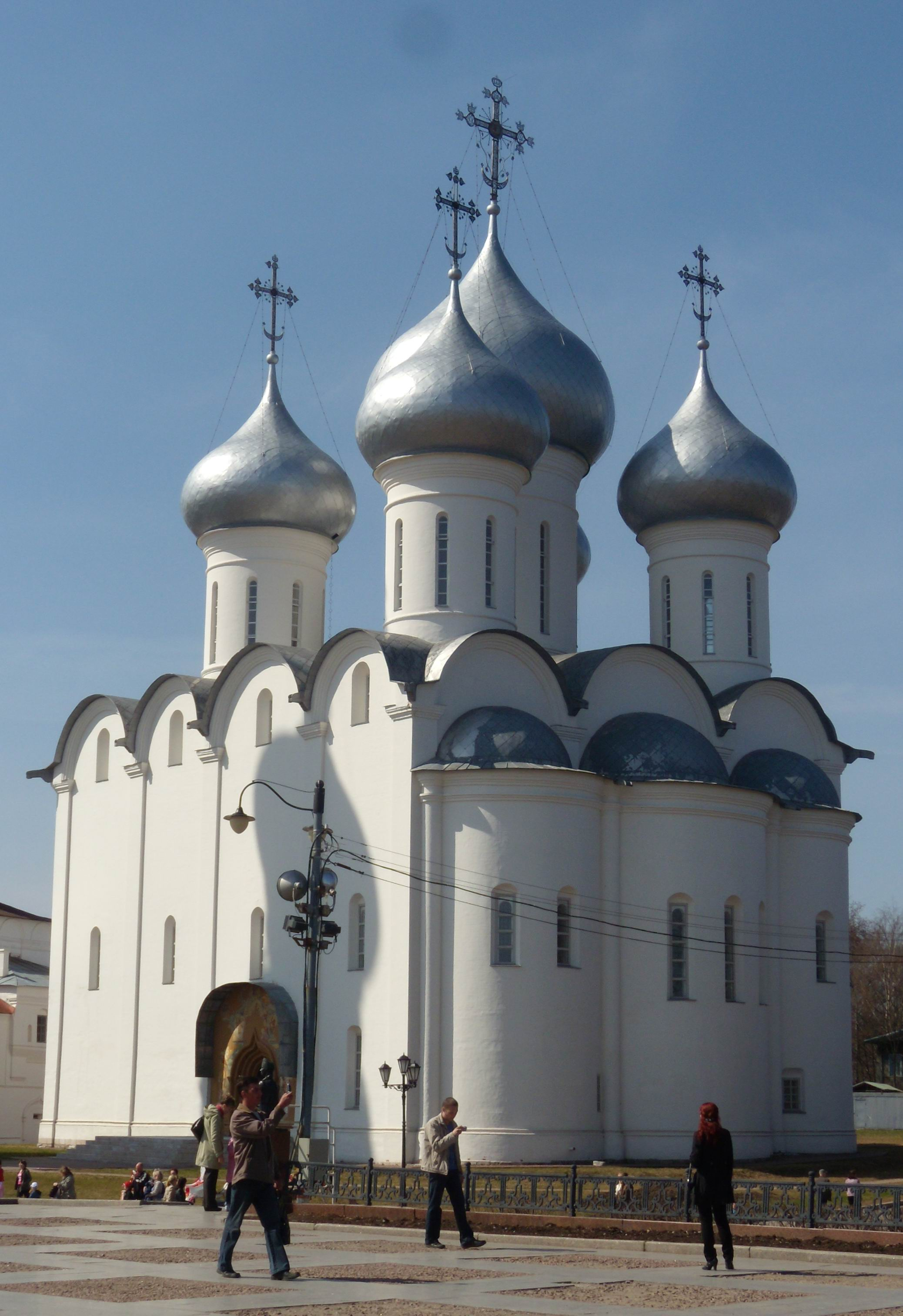 Saint Sophia Cathedral (Vologda).